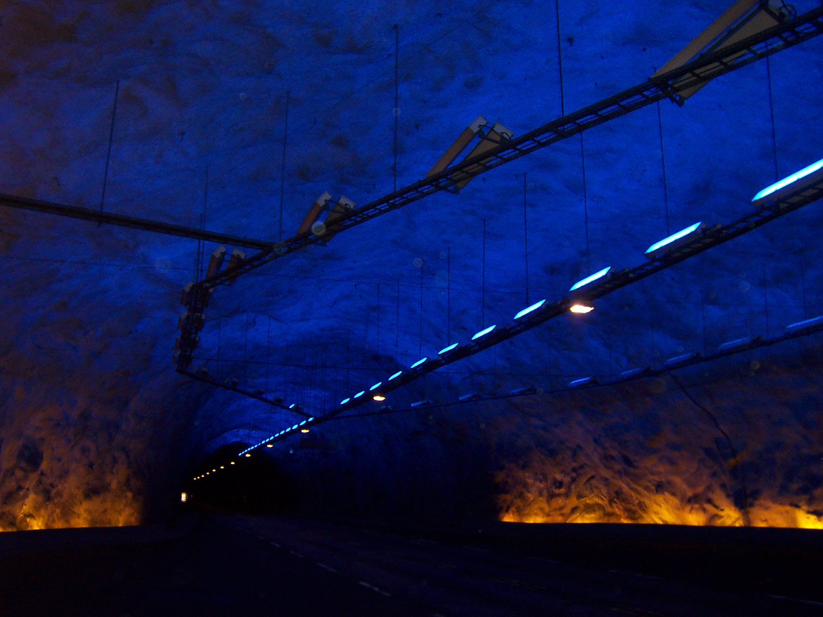 A picture of the Laerdalstunnelen in Norway